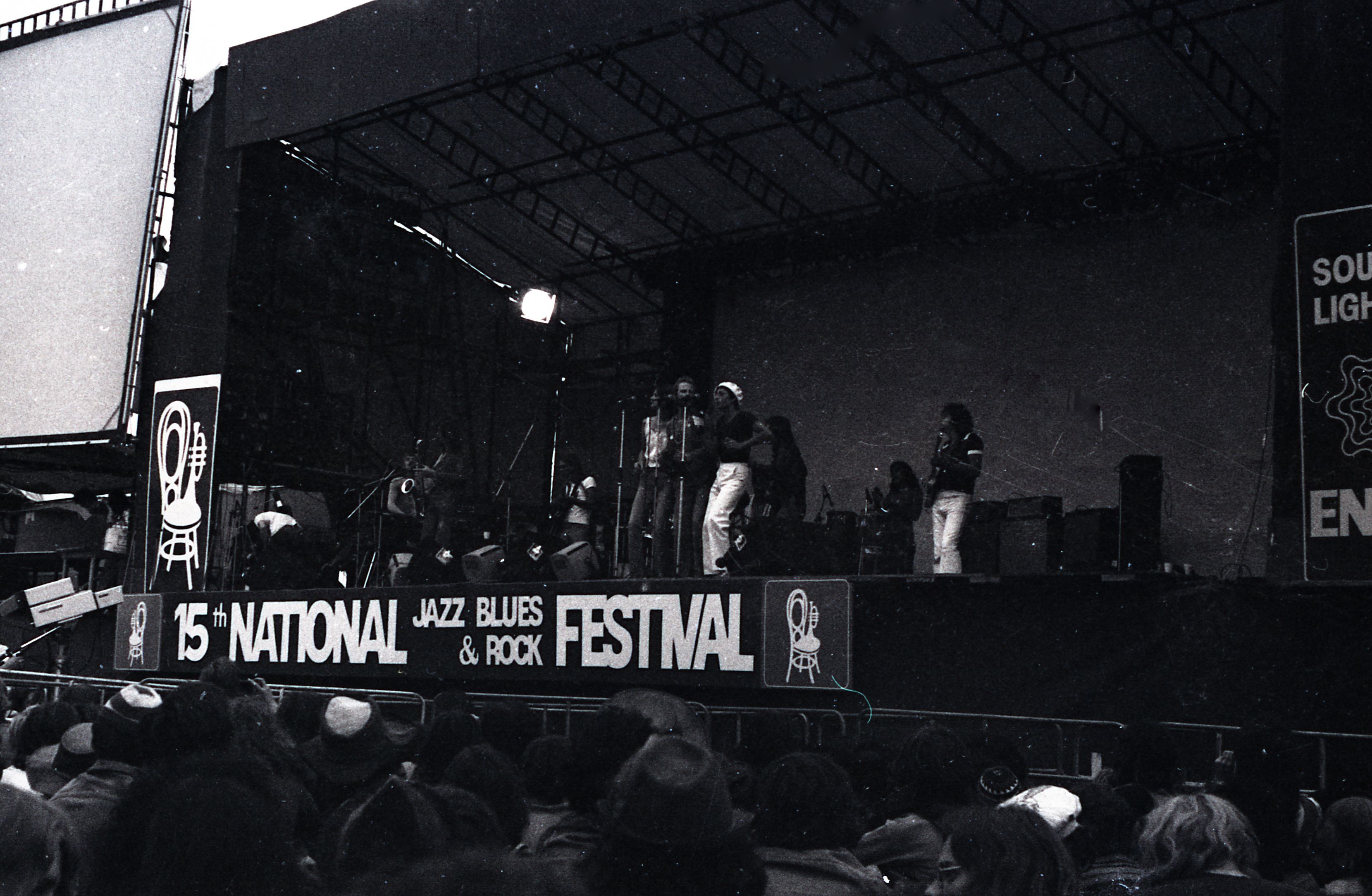 Kokomo at the National Jazz and Blues Festival 1975 (Reading) 24th August 1975